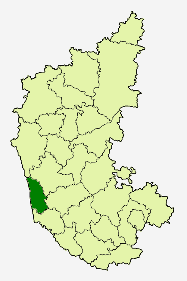 Map of Udupi District original altered from blank map of Wikimedia Commons.